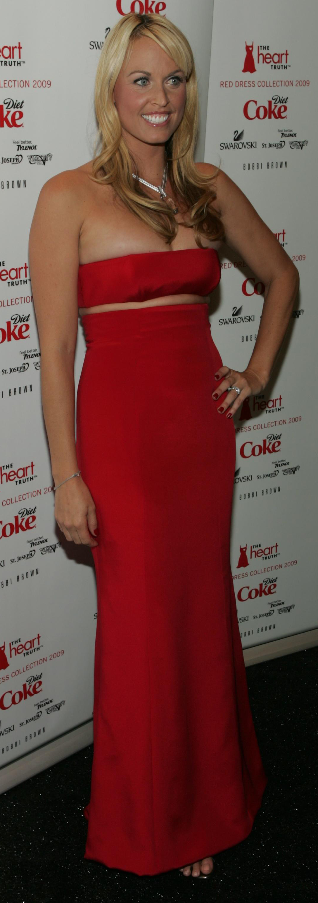 Backstage at The Heart Truth's Red Dress Collection Fashion Show during New York Fashion Week. February 13, 2009 at Bryant Park.